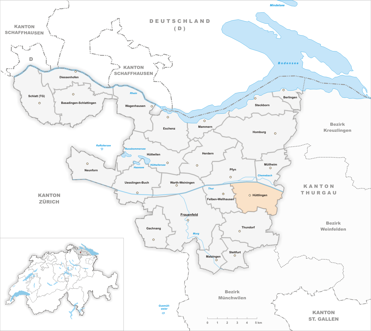 Municipality Hüttlingen